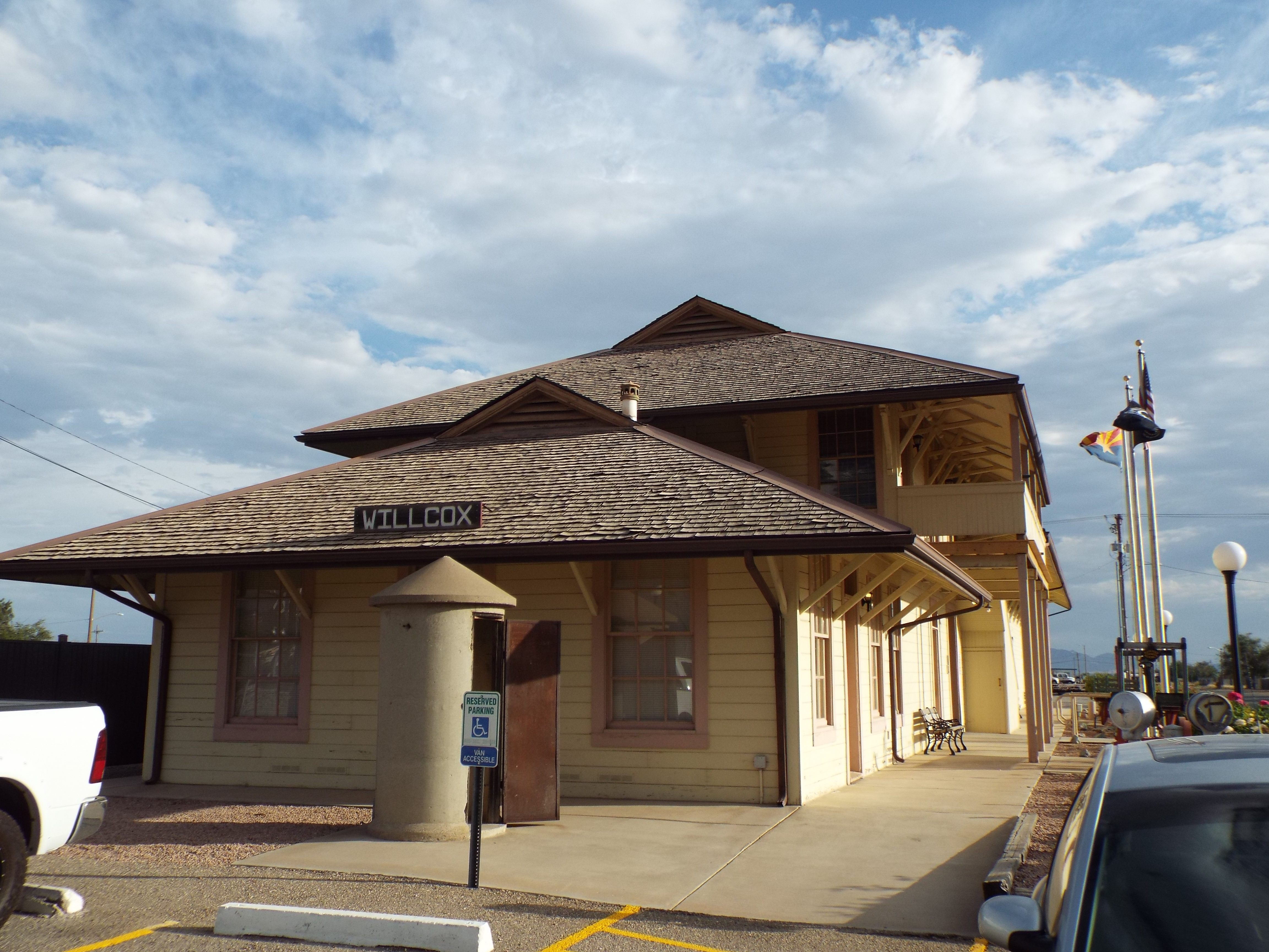 Historic Willcox Southern Pacific Railroad Depot-1881 in Willcox, Arizona